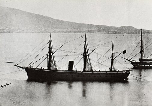 Ironclad Ré d'Italia, sunk at Vis battle in 1866. Error: probably this is the ship "Re di Portogallo", sister to the "Re d'Italia", as in the official site of Marina Militare italiana; it's impossible to verify in these days because the part of site related to ancient ships is offline for maintenance.